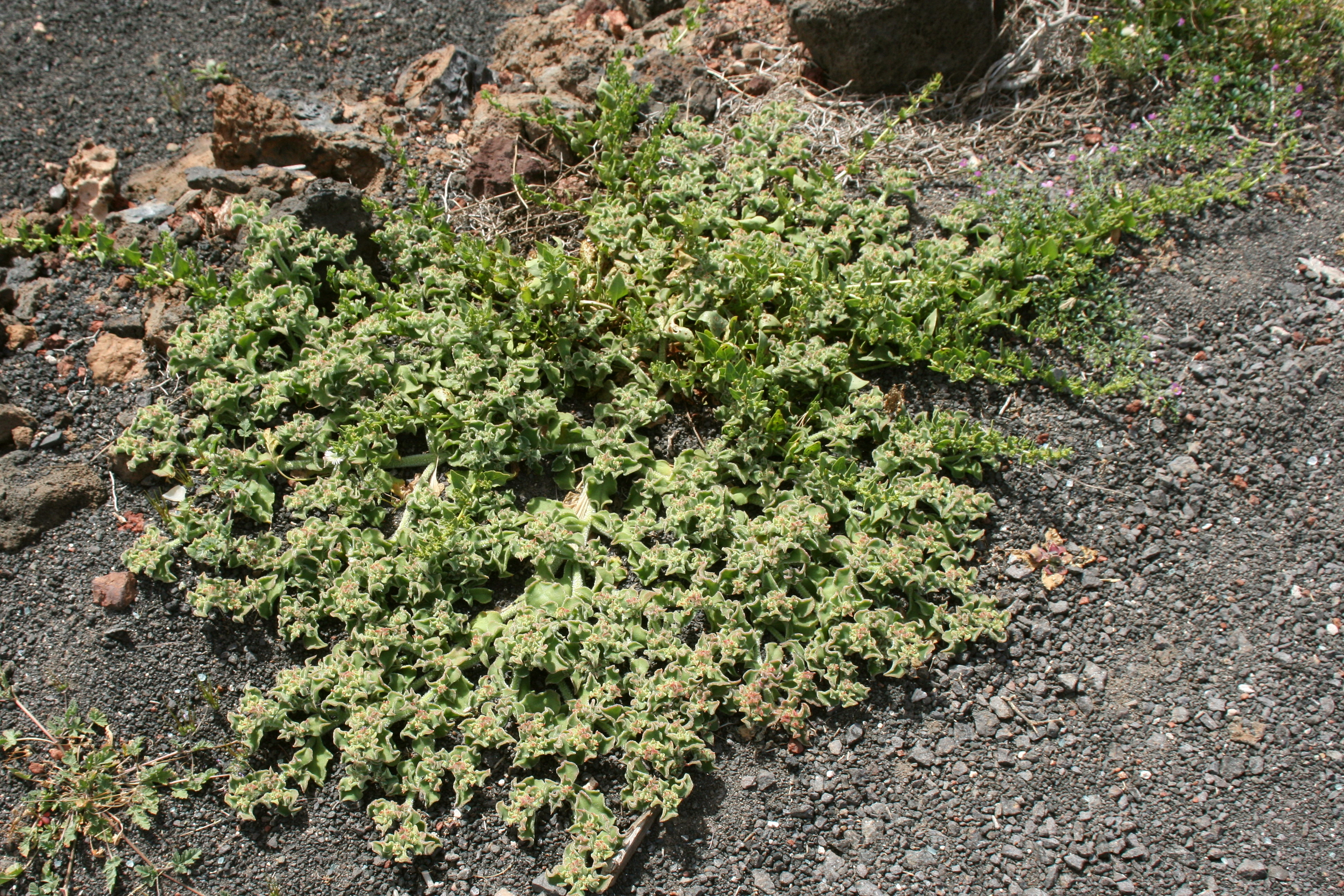 Mesembryanthemum crystallinum and Patellifolia patellaris growing on the Caldera de Cuchillo, Lugar de Cuchillo in El Cuchillo, Tinajo, Lanzarote, Canary Islands